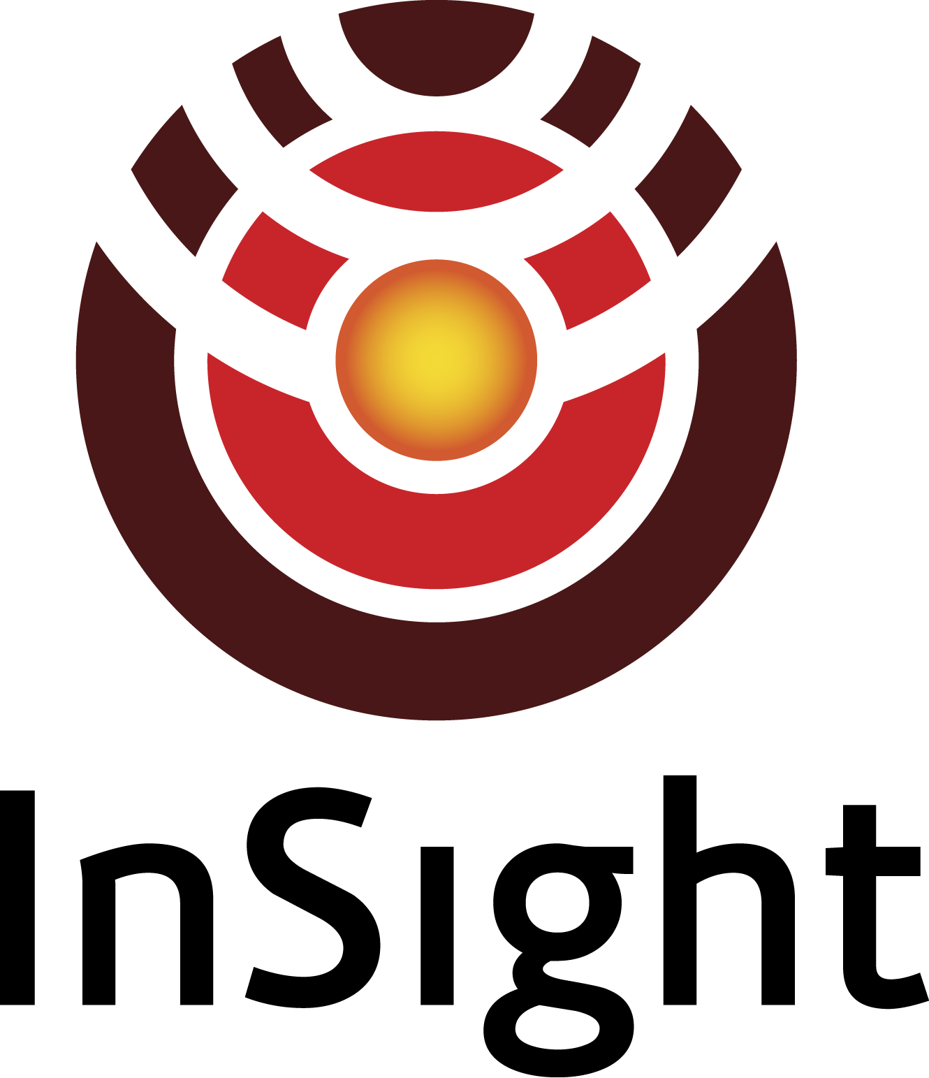 The mission logo for InSight, a joint NASA/DLR/CNES Mars mission.